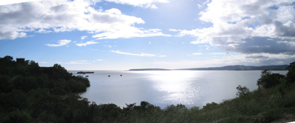 The Caribbean Sea from Guayanilla, Puerto Rico.